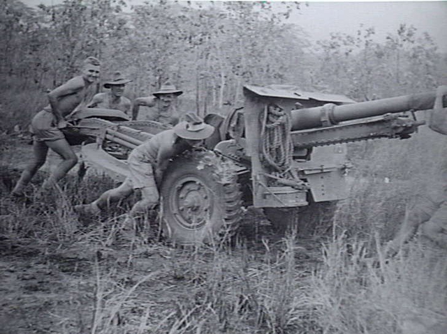 25-pounder gun from the Australian 2/6th Field Regiment around Port Moresby, New Guinea, September 1942